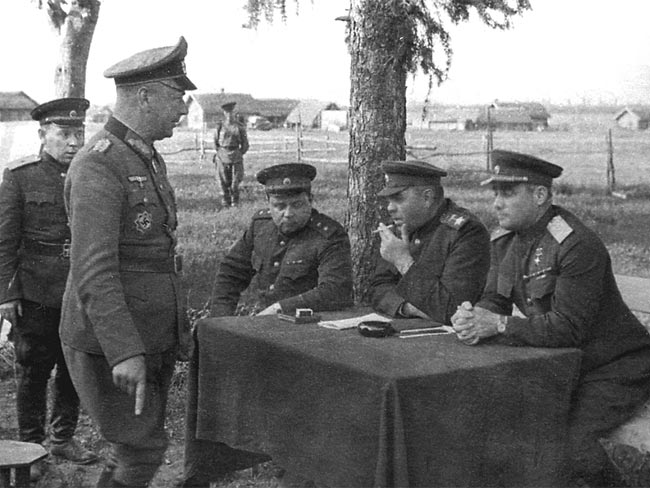 Public interrogation of the German Major-General Alfons Hitter by Marshal of the Soviet Union Aleksandr Vasilevsky and Field Marshal Ivan Chernyakhovsky after the battle of Vitebsk during Operation Bagration.